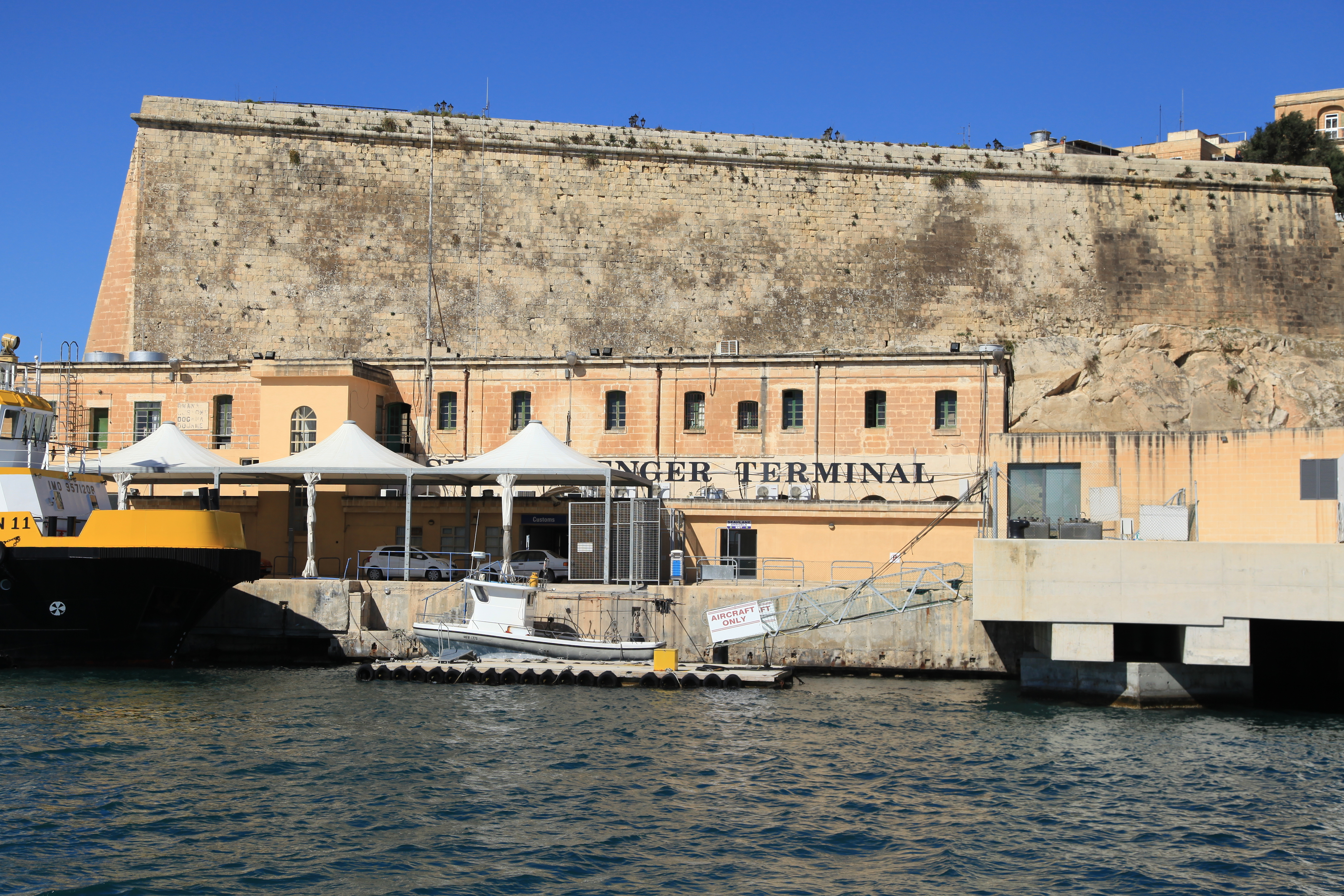 View from a Malta sightseeing two harbours cruise boat to Triq l-Għassara tal-Għeneb (aka Xatt l-Għassara tal-Għeneb) and the Capuchin Bastion in Floriana, Malta